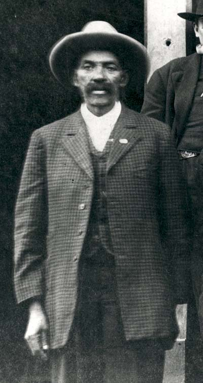 U.S. Marshal Bass Reeves